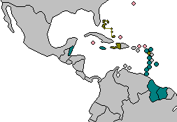 Map of the CARICOM countries that have a single market (CSM) CARICOM members part of CSM CARICOM members not part of CSM CARICOM associate members